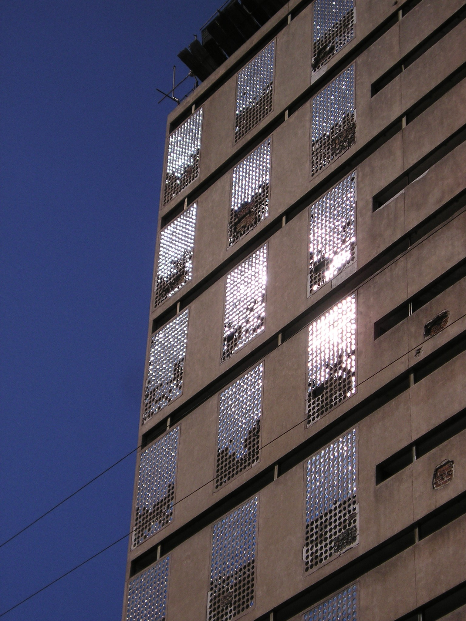 copyright Tobias Baccas 2006 author Tobias Baccas